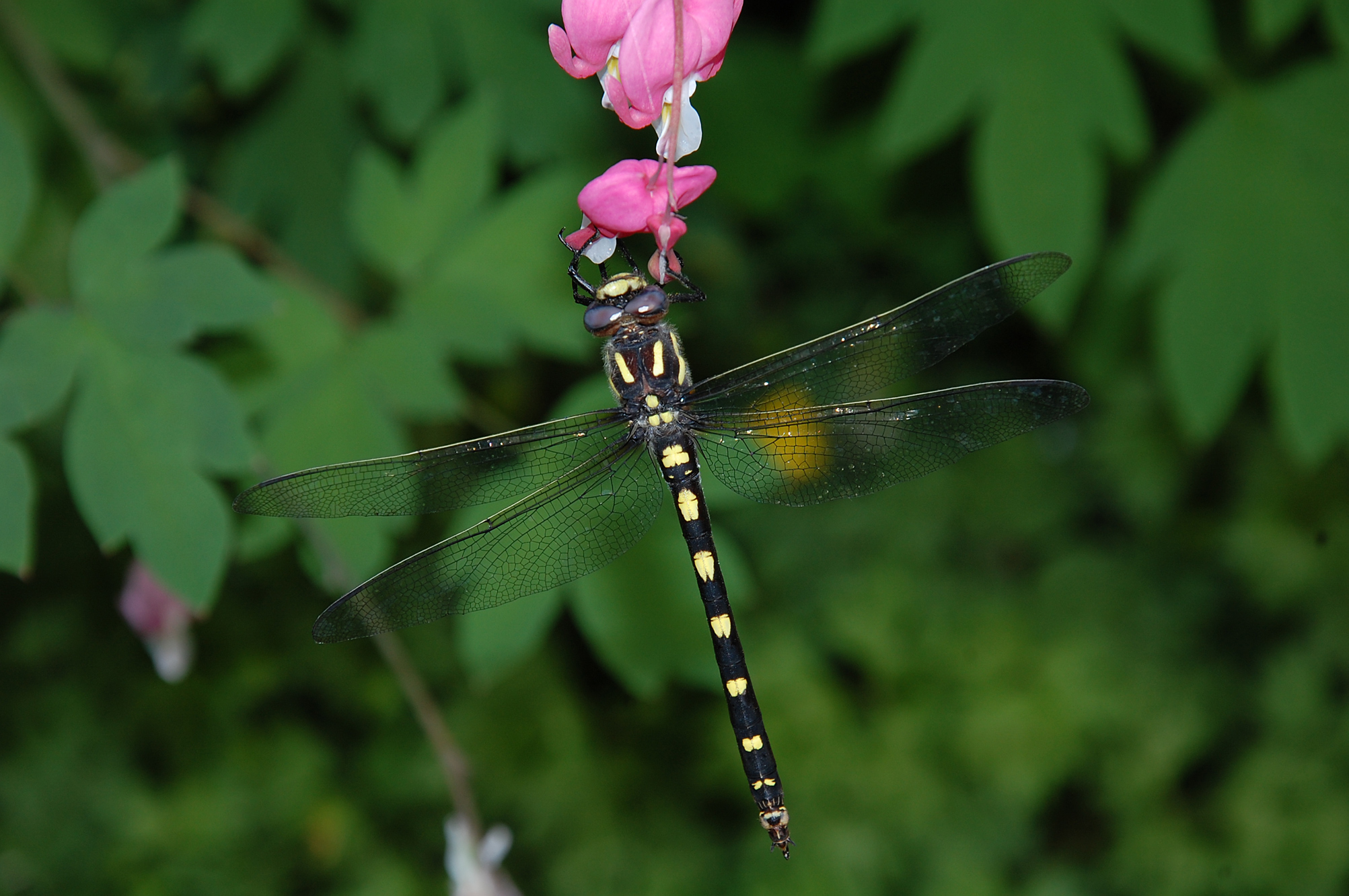 Pacific Spiketail (Cordulegaster dorsalis) dragonfly, perched on a Bleeding Heart (Lamprocapnos spectabilis)